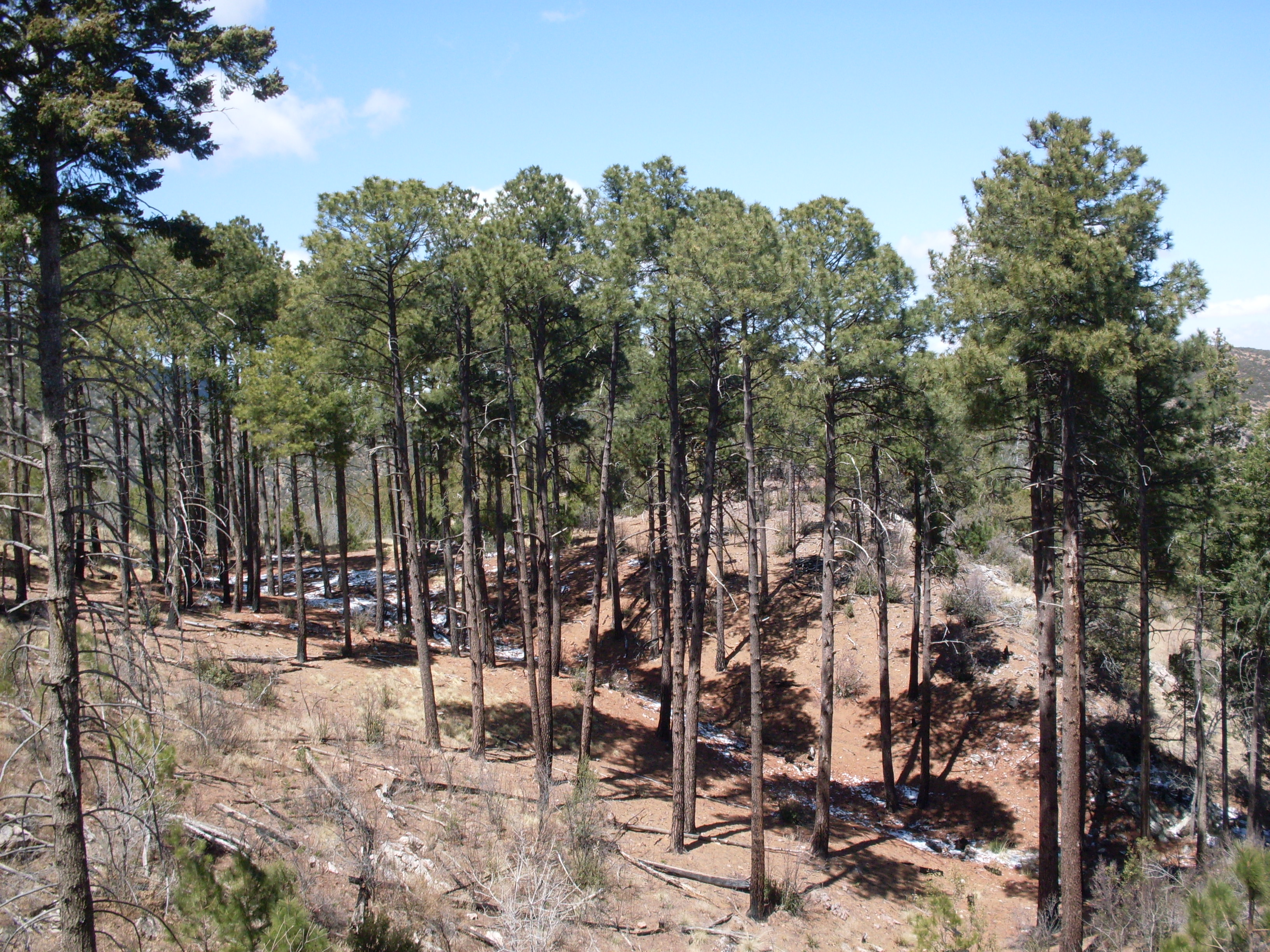 Pinus engelmannii forest (with Pseudotsuga menziesii at far left). Carr Peak Trail, Ramsey Canyon, Huachuca Mts., Cochise Co., Arizona, 31°25'23"N 110°18'05"W, 2310m altitude